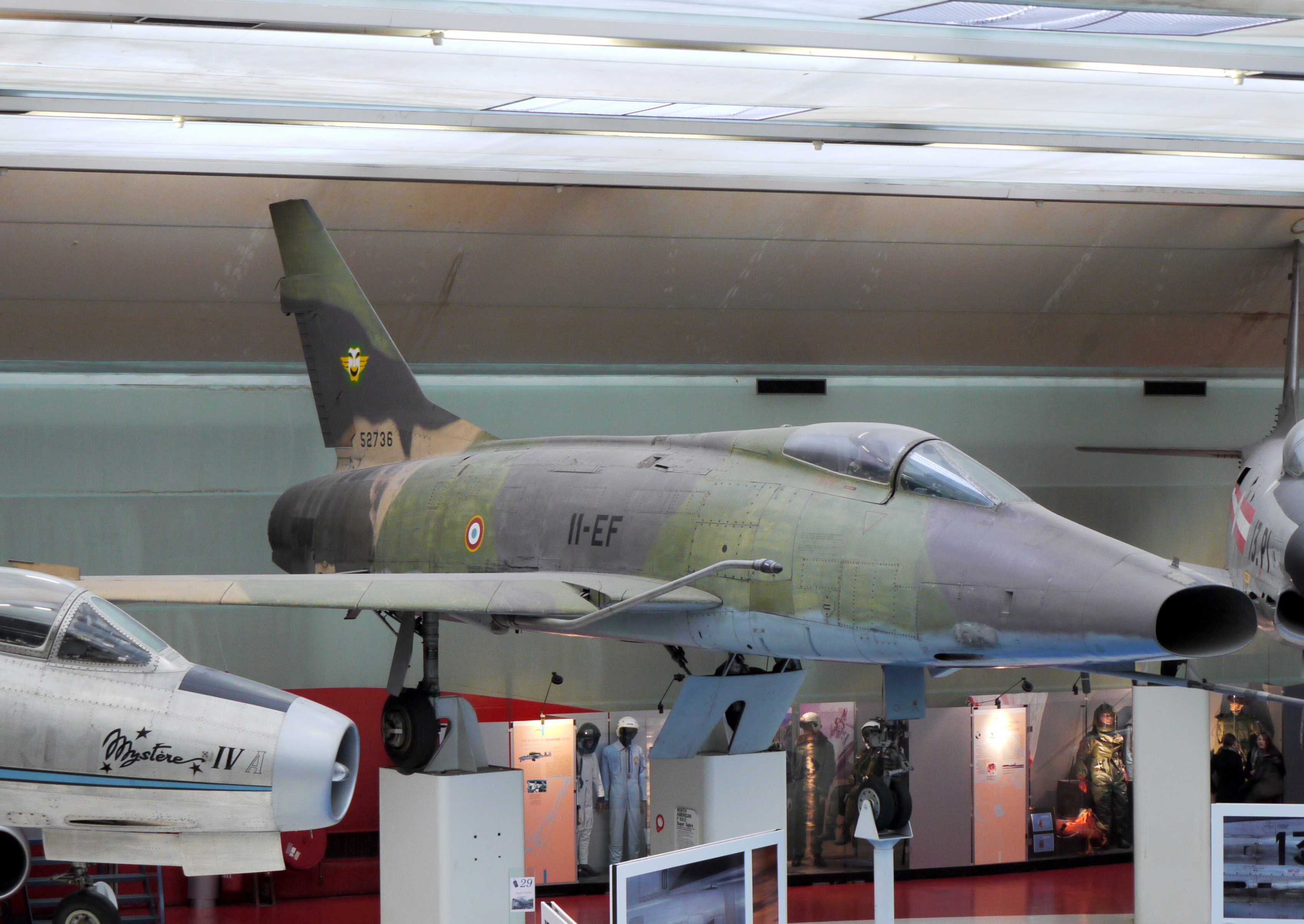 A North American F-100D-35-NH Super Sabre (s/n 55-2736), Museum of Air and Space Paris, Le Bourget (France). It wears the markings of EC 1/11 "Roussillon" which operated the F-100D from 1958 to 1976, based at Luxeuil-Saint Sauveur (1958-1961), Bremgarten (Germany, 1961-1967), and Toul-Rosières (1967-1976).